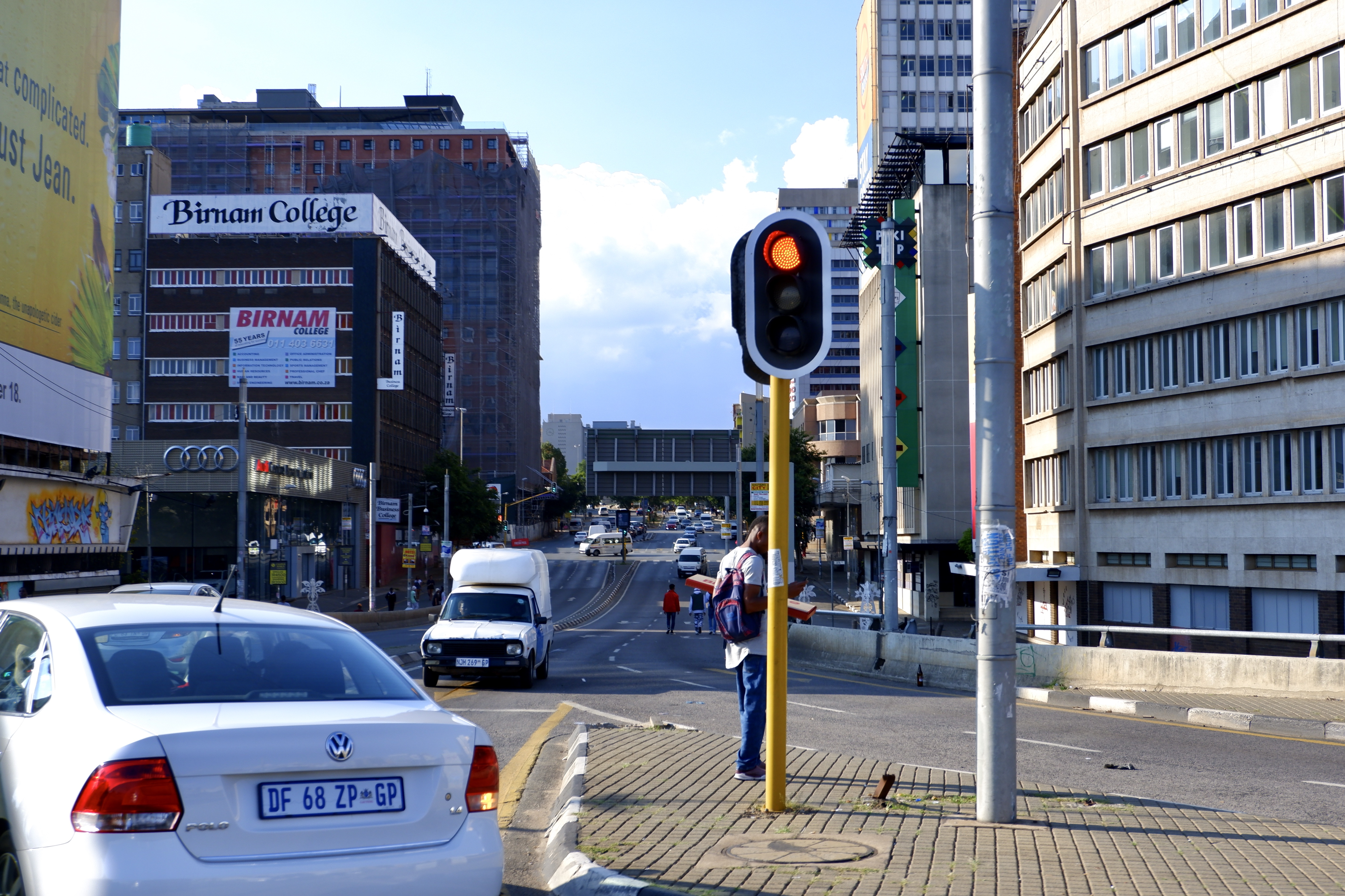 This is an image with the theme "Africa on the Move or Transport" from: South Africa